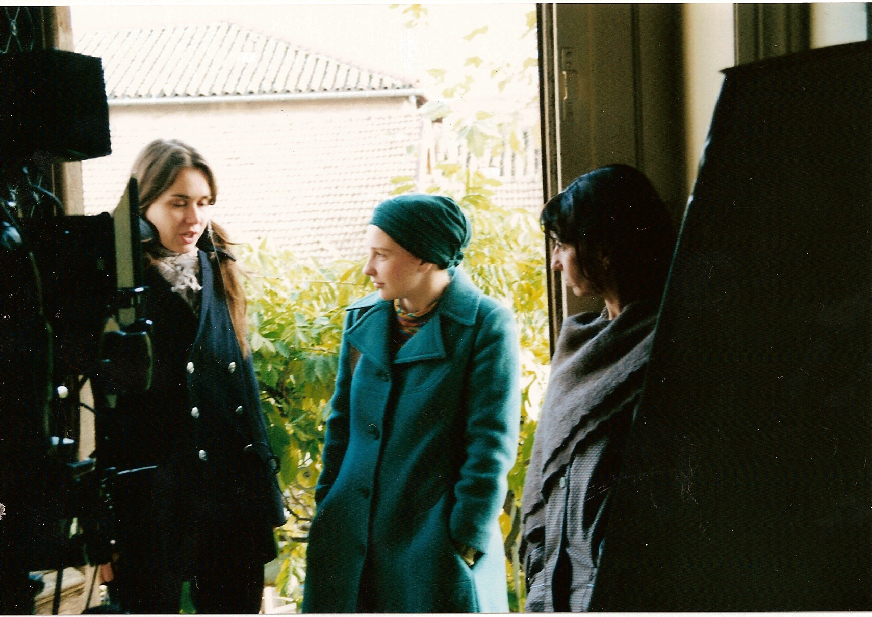 On the set of A Common Thread in Fleurie (France). From left to right: Éléonore Faucher, Lola Naymark et Ariane Ascaride.